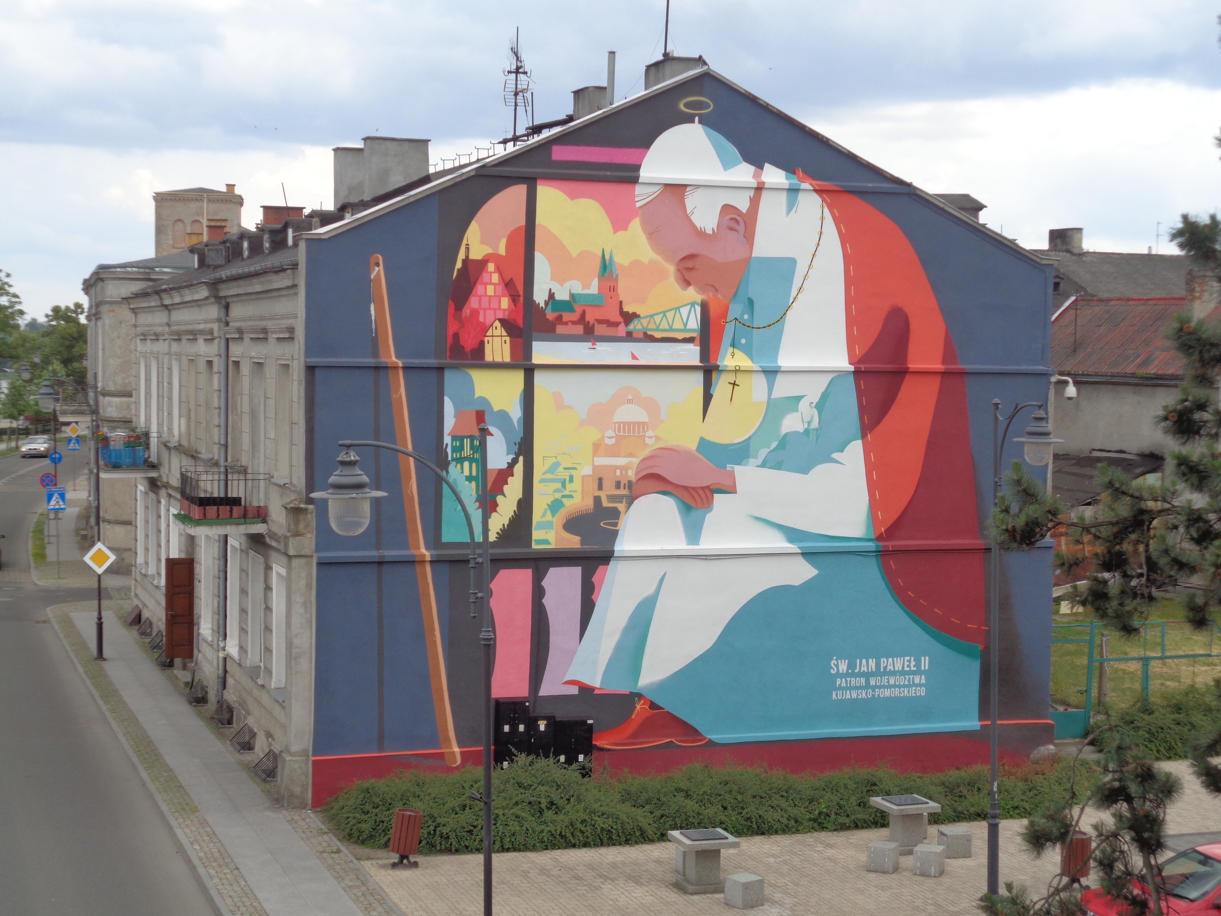 Mural of Pope John Paul II on one of the builgins at marshal Józef Piłsudski boulevards in Włocławek, painted in 2017 year. Pope is watching Włocławek by the window of "fathers house" (means: heaven, this is reference to one of the last words of pope). There are Edward Śmigły-Rydz bridge and Cathedral in Włocławek on the picture. There is a aureole belove the popes had - symbol of saint. John Paul II is a honorary inhabitant of Włocławek and kuyavian-pomeranian voivodeship. This second title is written on the mural.